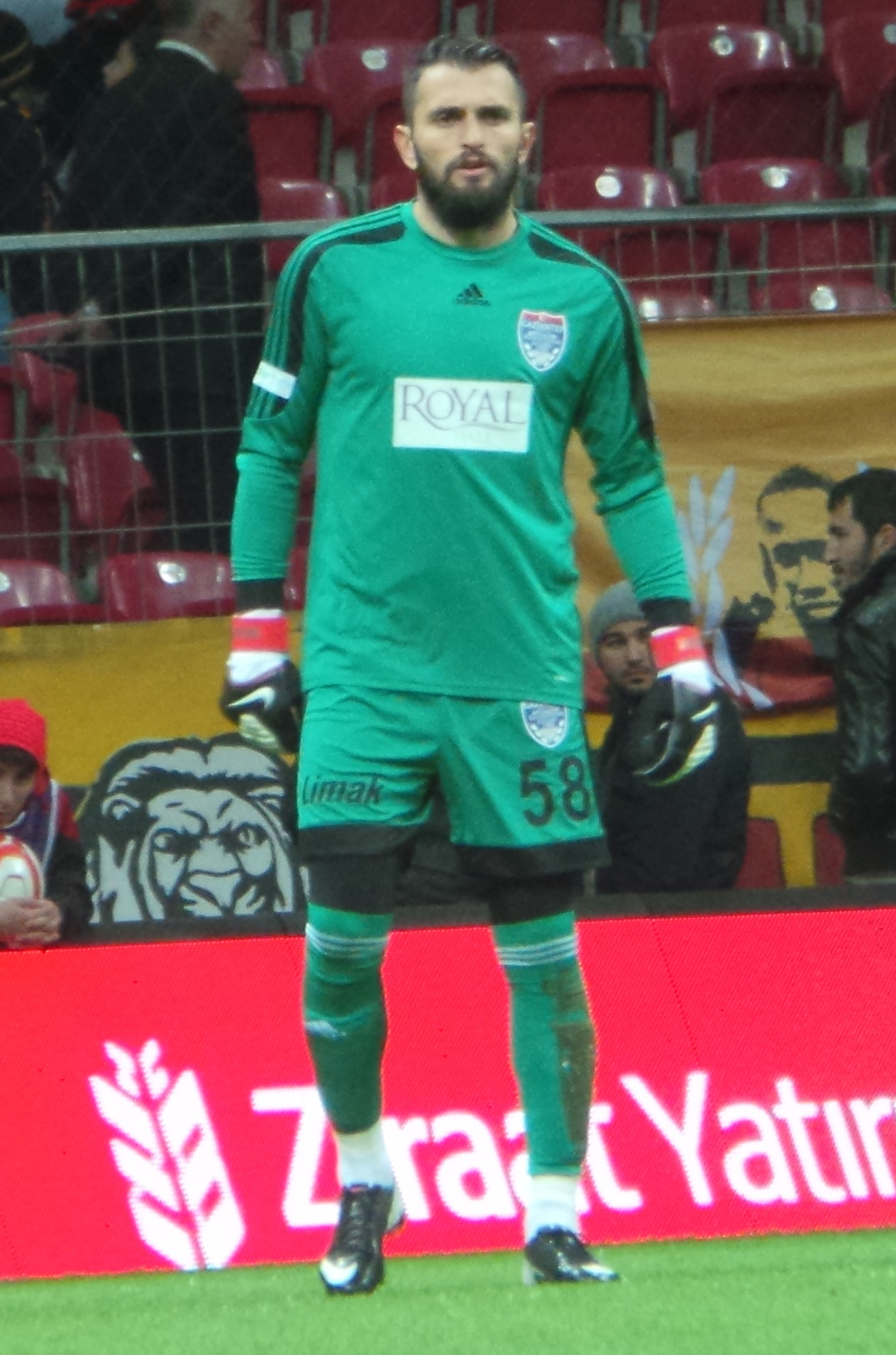 Onur Bulut playing against G.S.